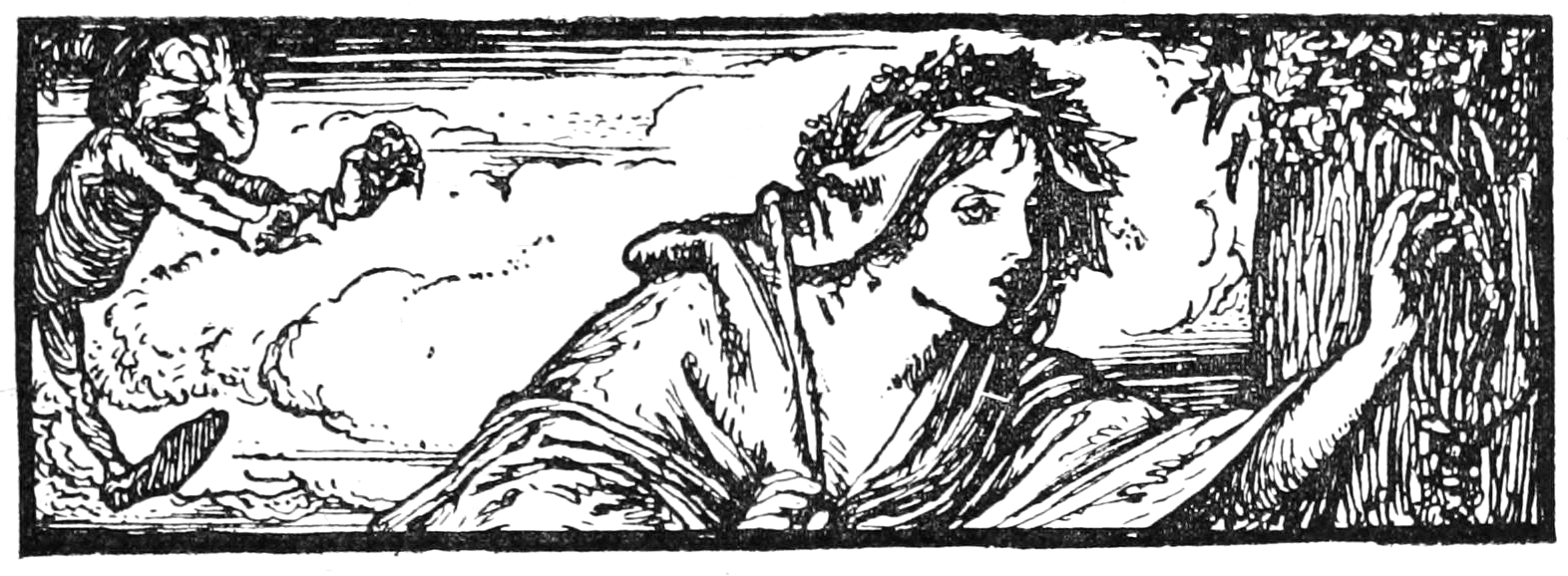 Illustration from a book of fairy tales